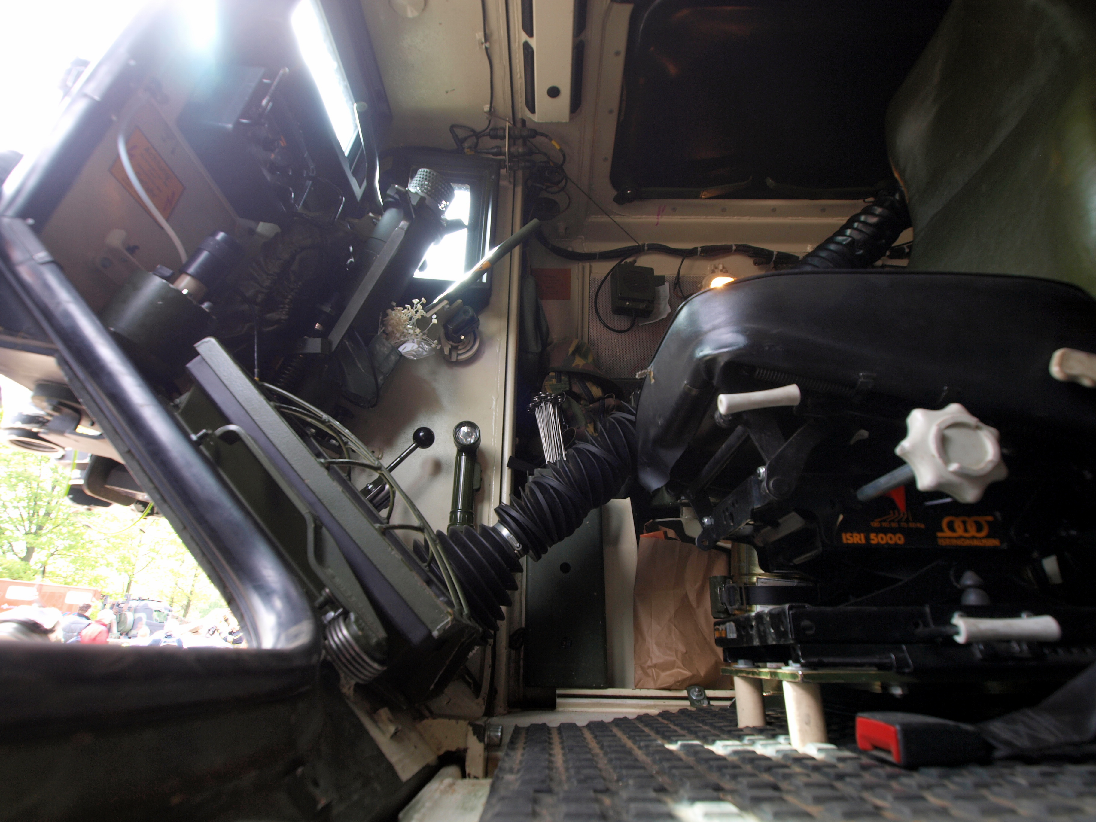 Photographed at the Open house / Open door Landmachtdagen 2012 in Oirschot the Netherlands. Fuchs vehicle of the Dutch army. Rear seat of the NBC expert.